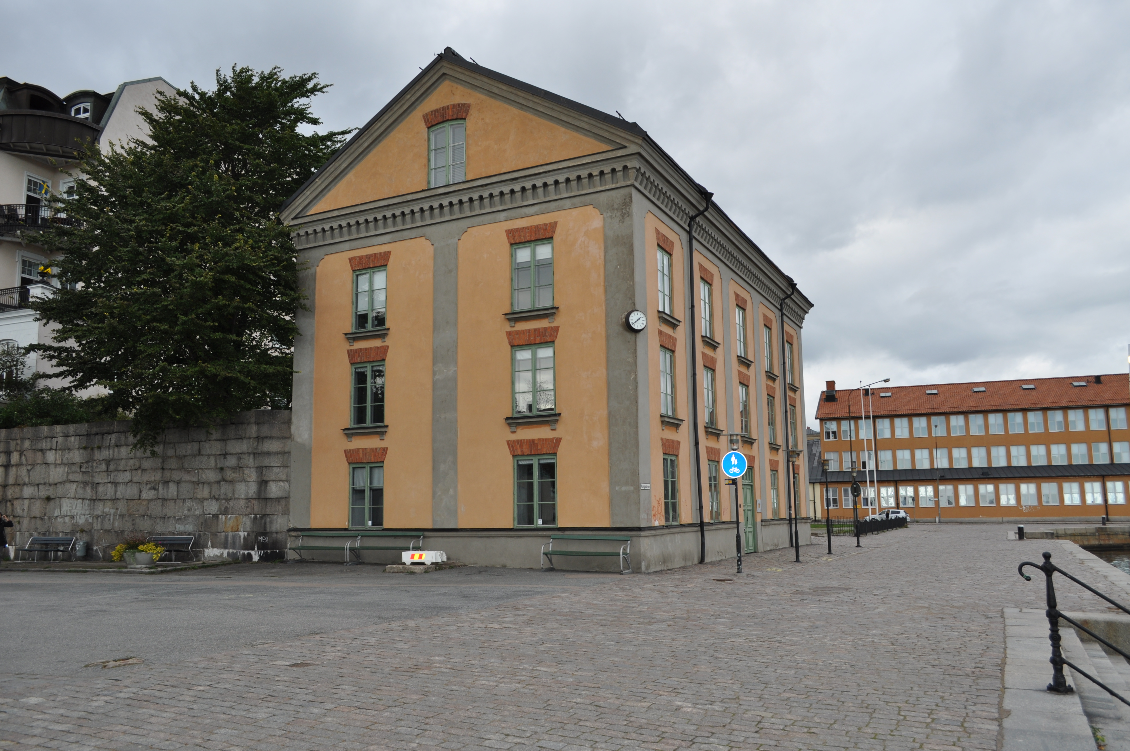 Hollströmska magazine, Kungsbron - Karlskrona